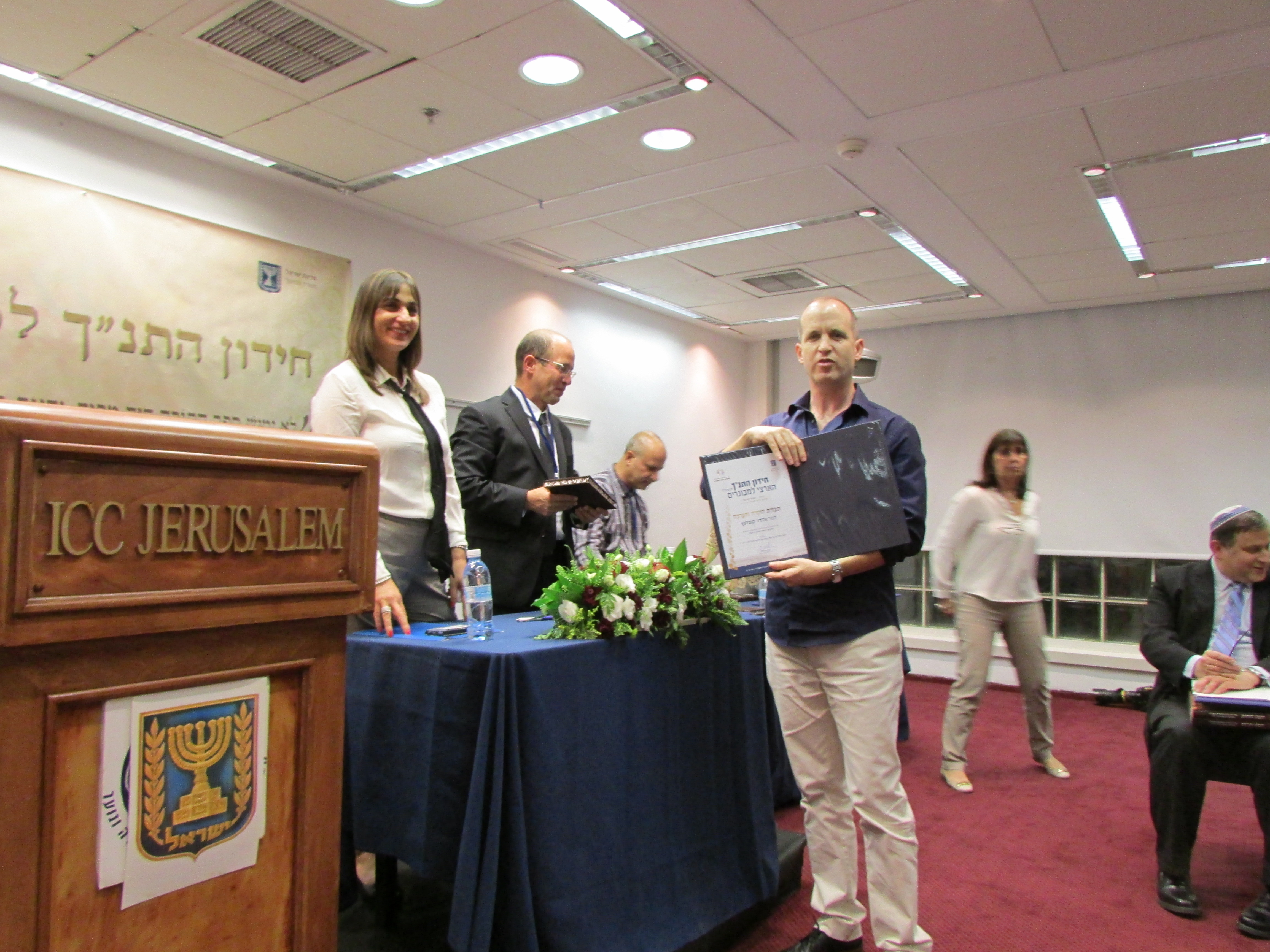 Eldad Koblenz receiving from Michal Cohen a thank you for the work of the eductional television on the 2013 adult bible quiz